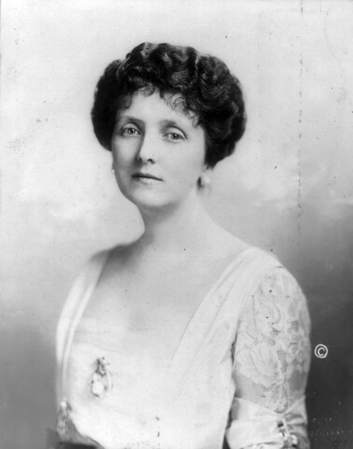 Emily Post, half-length portrait